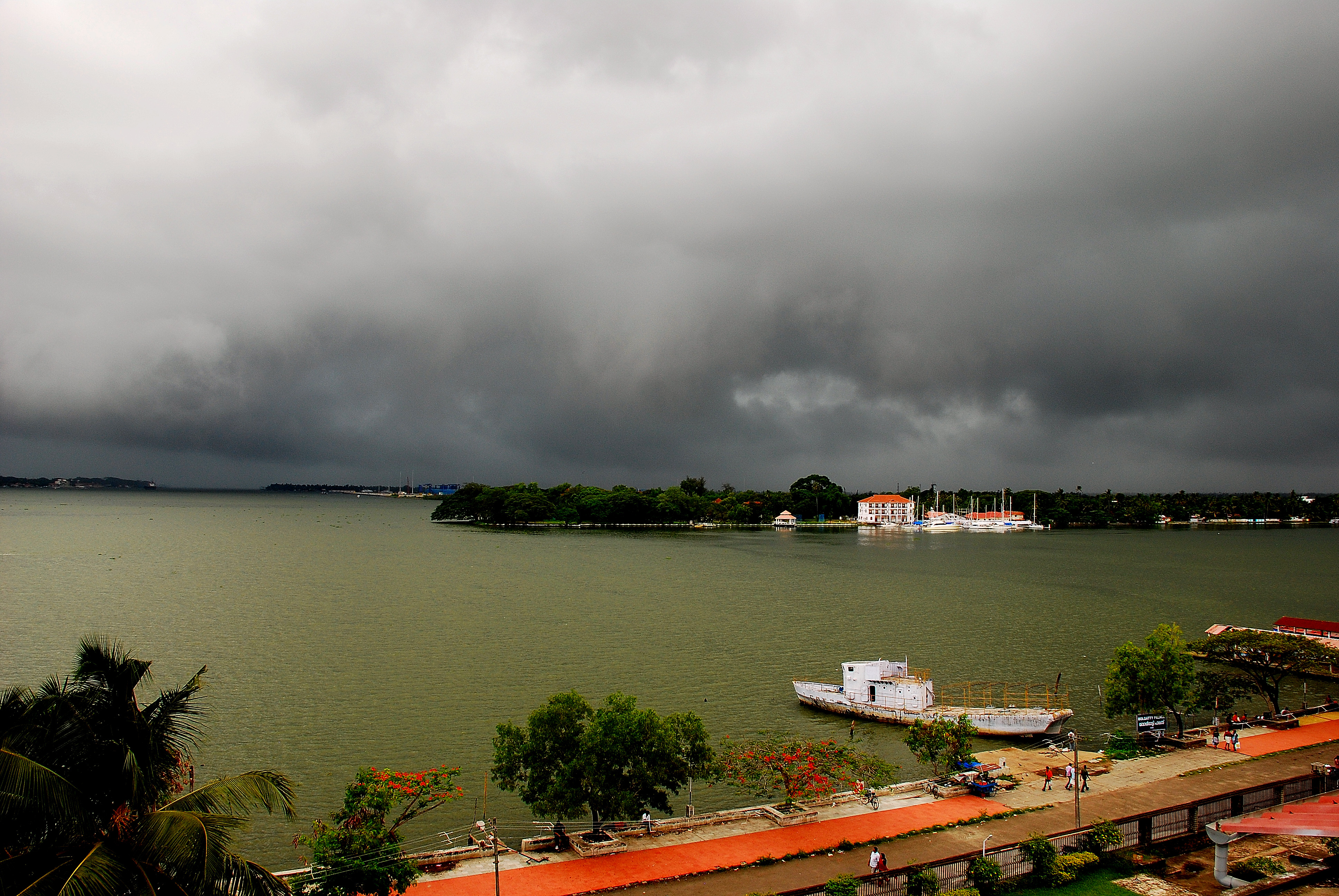 Bolgaty palace, Kochi